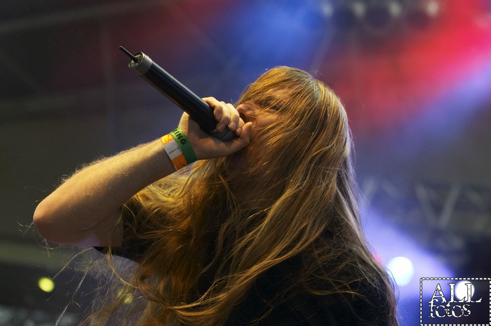 Legion of the Damned at Earthshaker Fest, Kreut/Amberg, Germany 2007 (Maurice Swinkels)